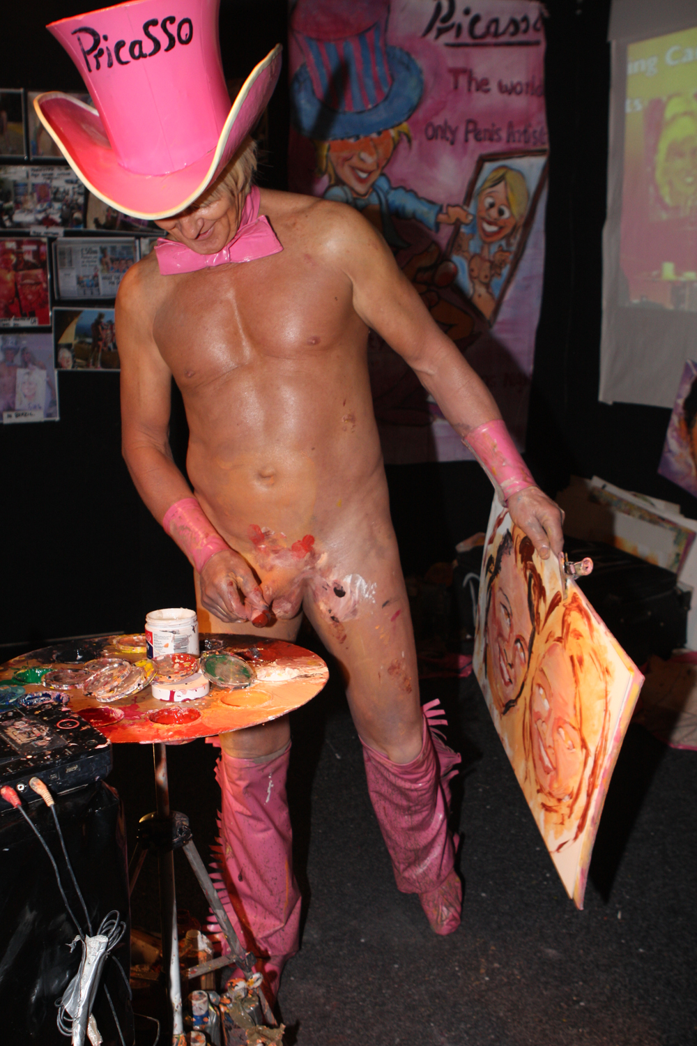 Pricasso at the 2012 Sexpo, held at Star City in Sydney.